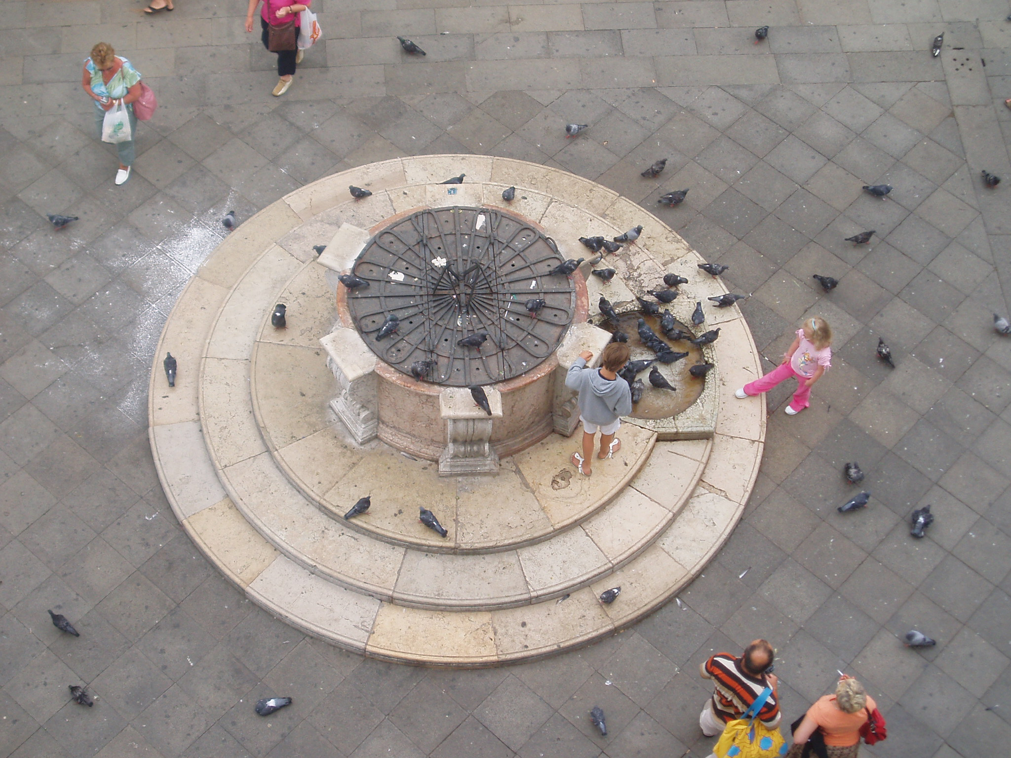 well in pta. leoncini - venice